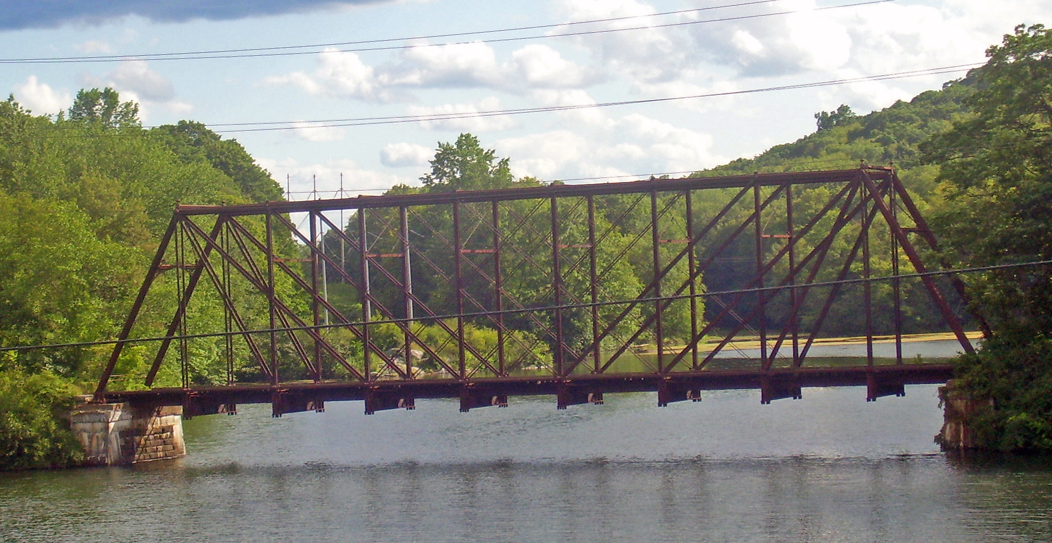 Bridge L-158, built by the New York Central railroad in 1883 at Rondout Creek near Kingston. Moved to its current location at Muscoot Reservoir between Somers and North Salem in 1904, to be taken out of service in 1960, it is listed on the National Register of Historic Places as the only remaining double-intersection Whipple truss railroad bridge in New York State.